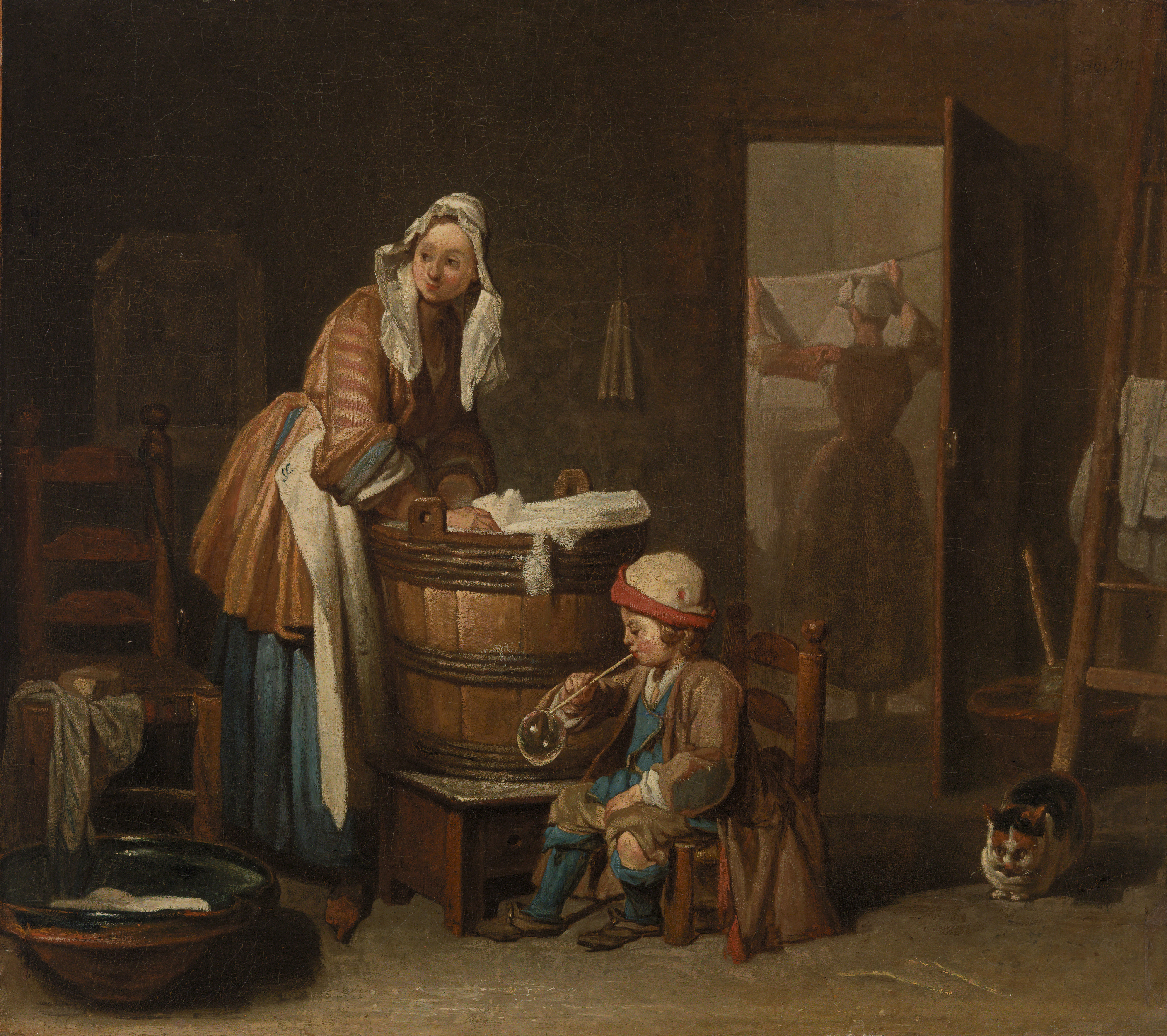 bf2545